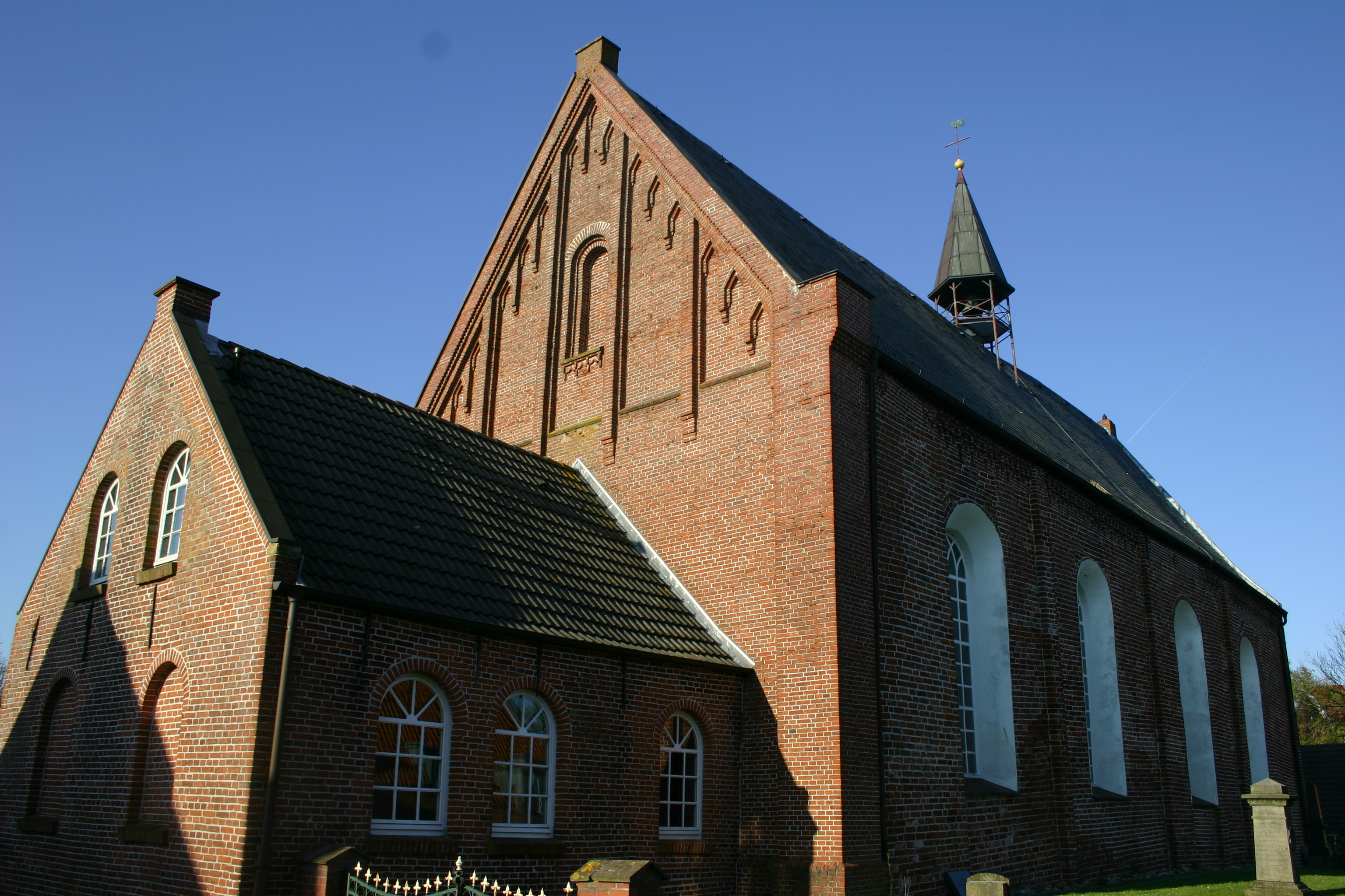 Historic church in Uphusen, city of Emden, East Frisia, Germany